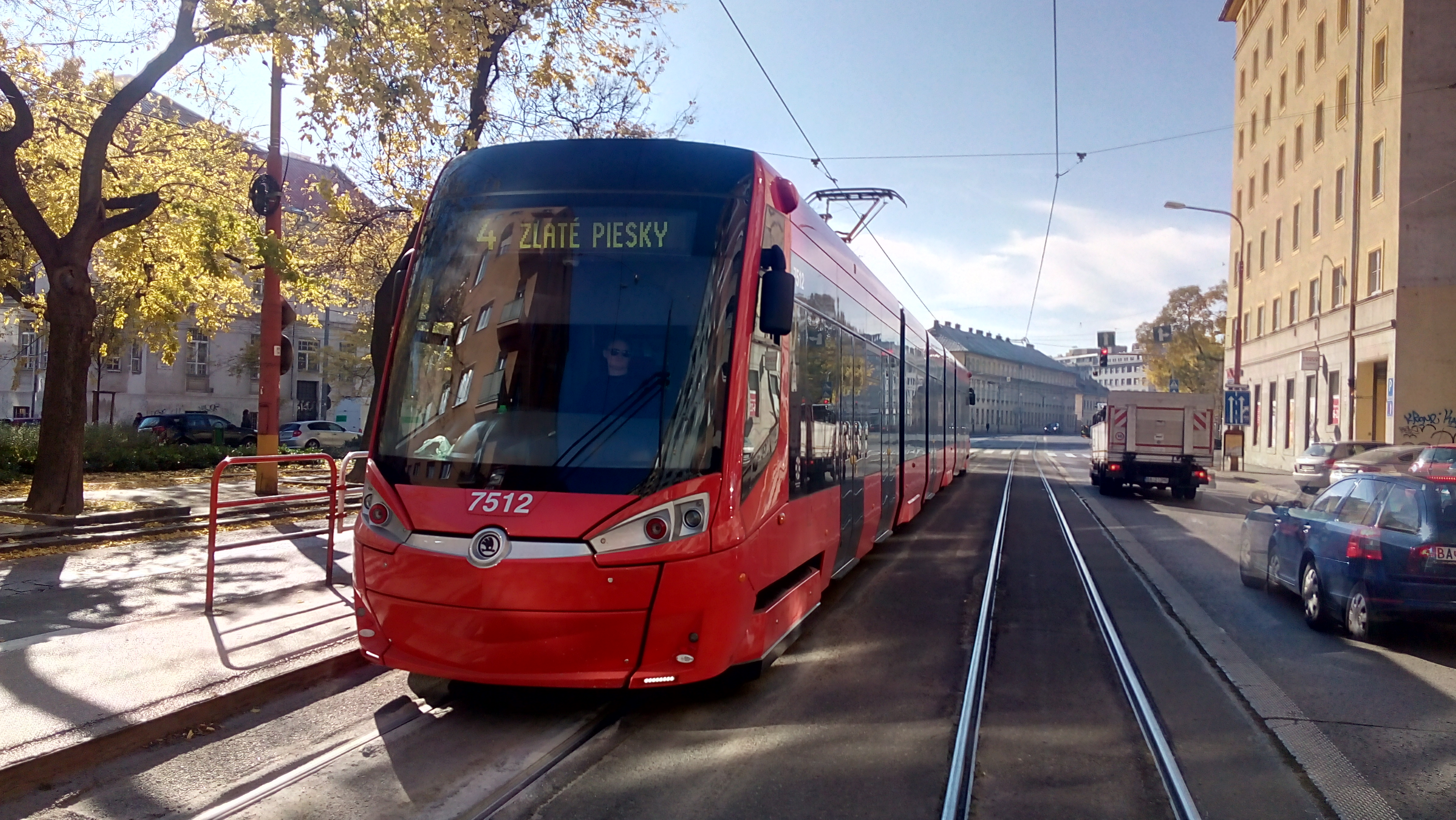 Škoda 30 T tram #7512 at Krížna in Bratislava